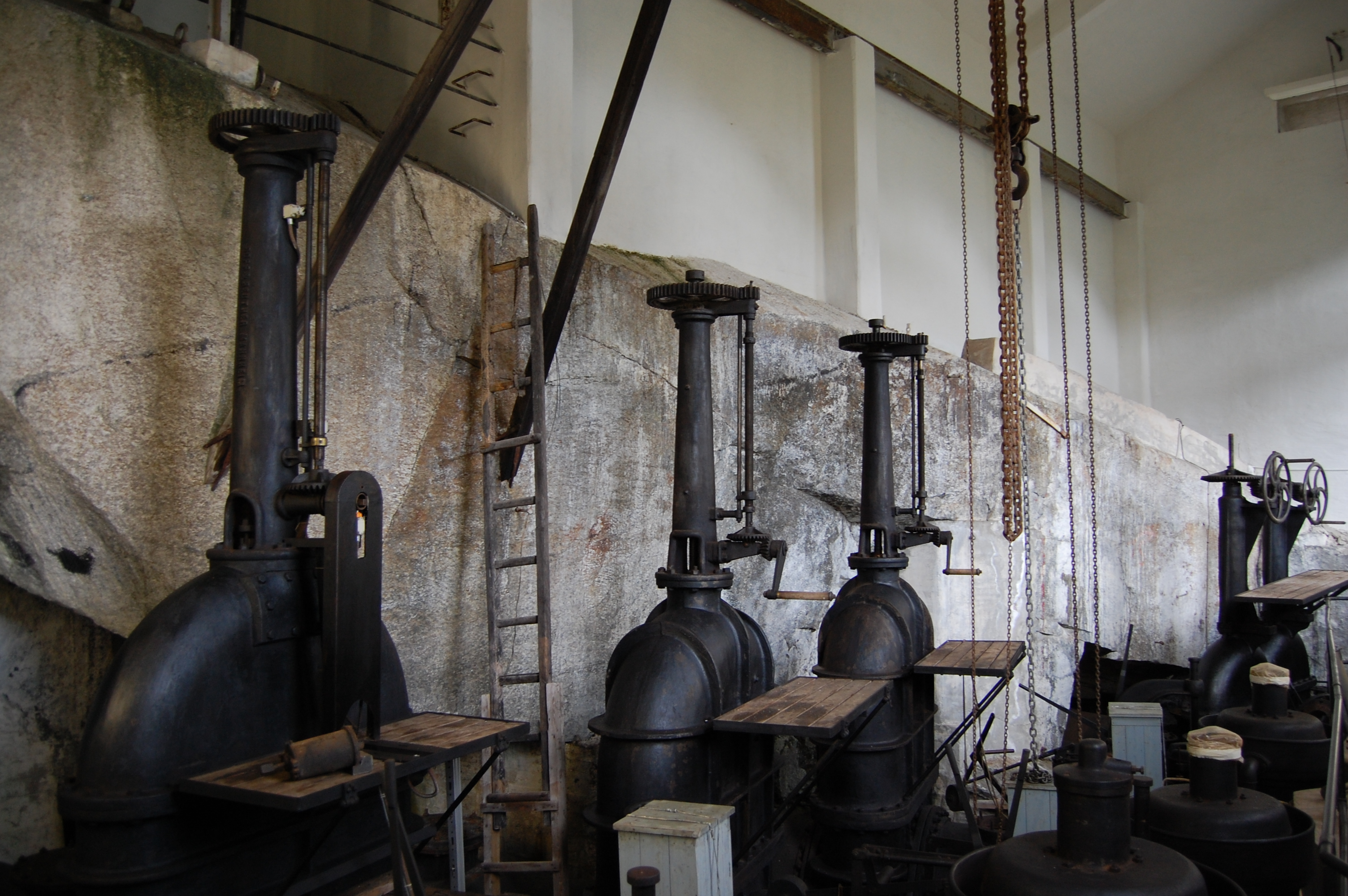 Lilletopp, Tyssedal